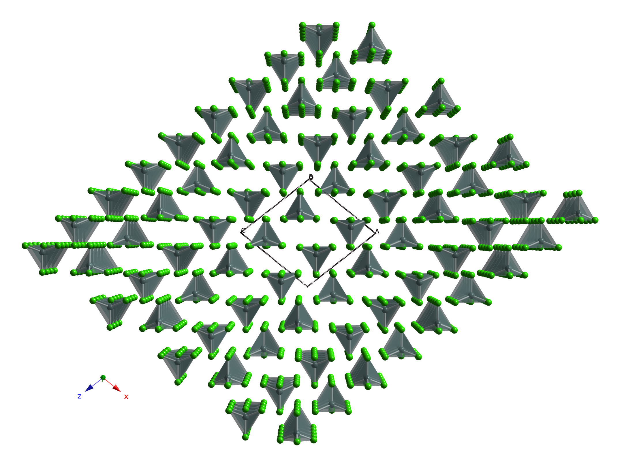 Polyhedral diagram of part of the crystal structure of tin tetrachloride, SnCl4. Colour code: Tin, Sn: blue-grey Chlorine, Cl: green Crystal structure from Z. Anorg. Allg. Chem. (2000) 626, 925-929. Image generated in CrystalMaker 8.2.